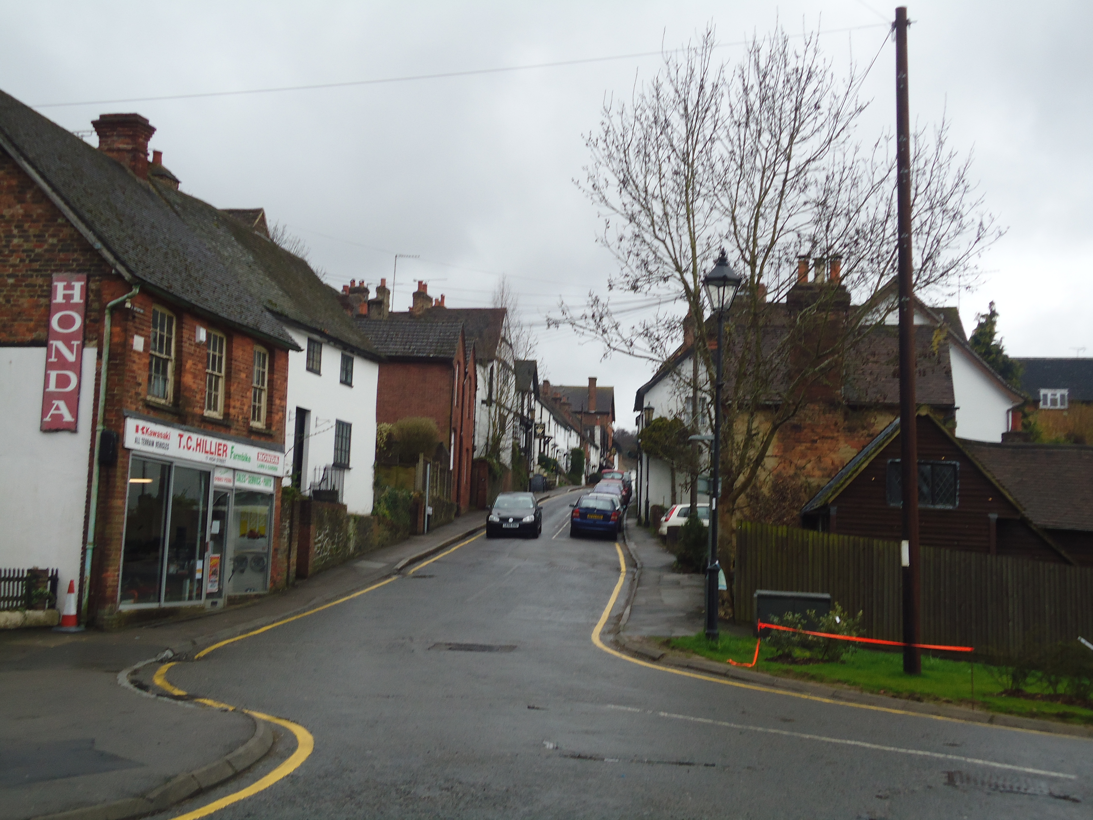 High Street, Old Oxted